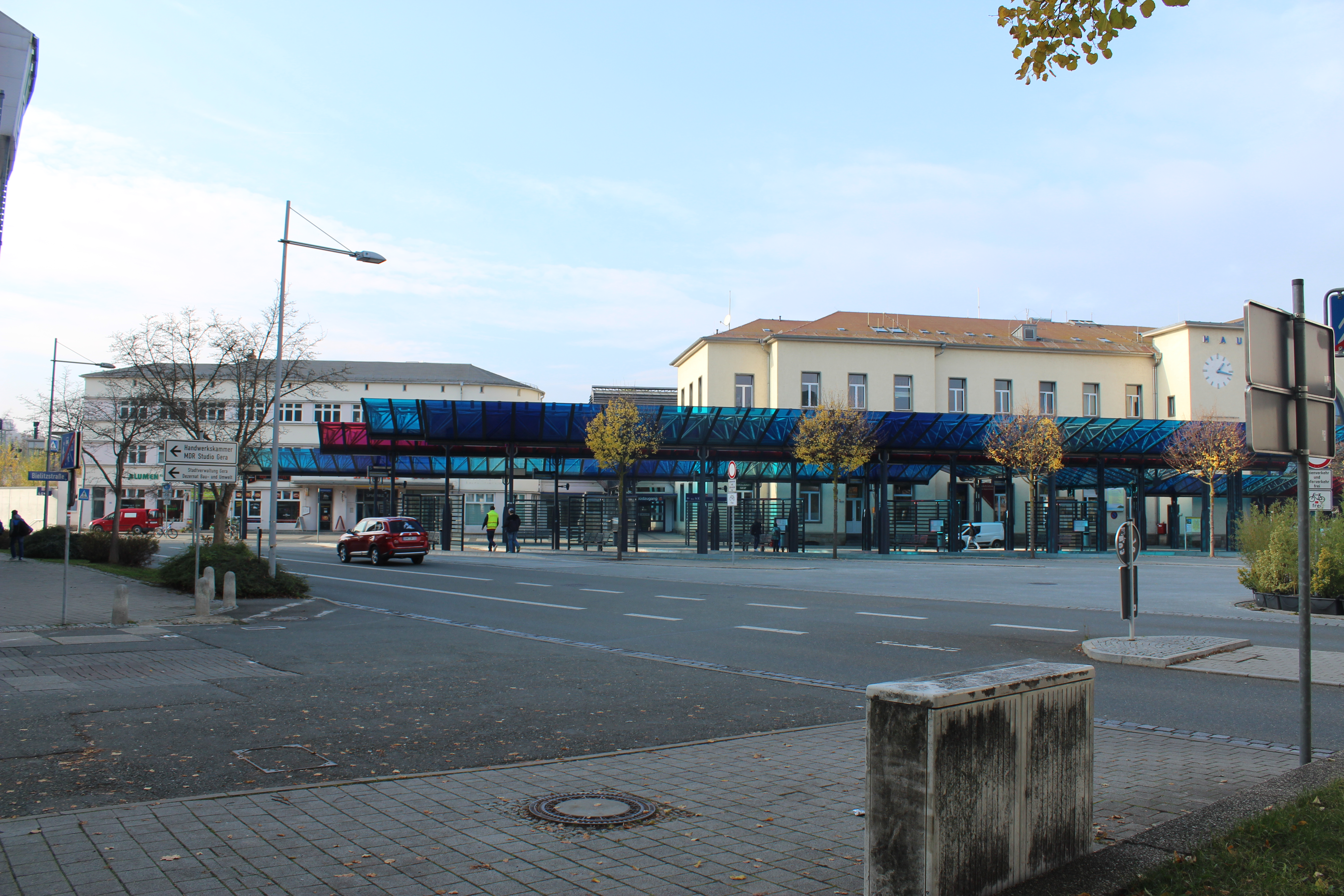 Gera main station, bus stop